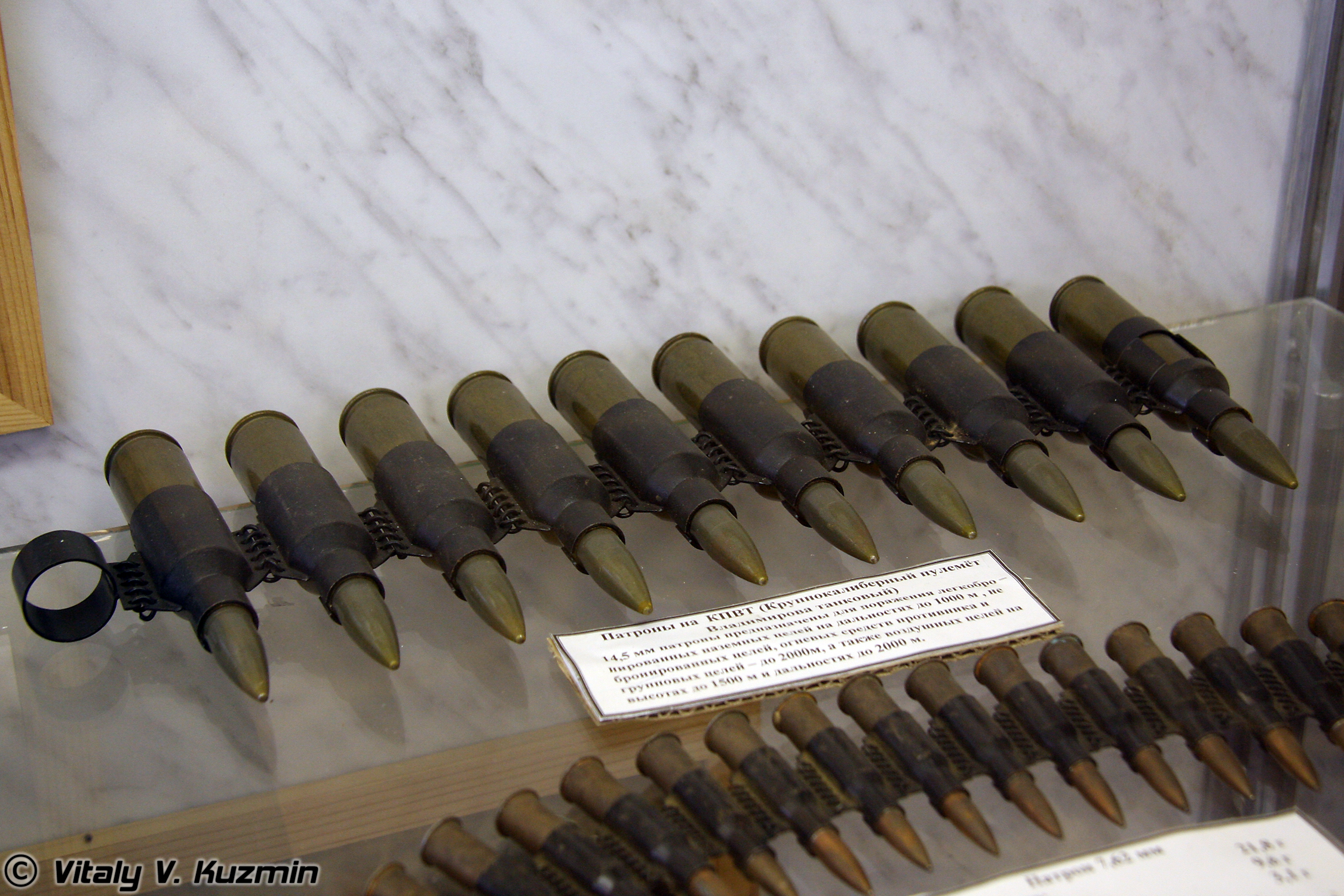 Belted 14.5 mm cartridges for KPVT